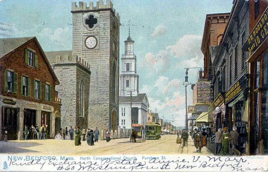 Postcard picture: "North Congregational Church, Purchase St." 1906 Location: New Bedford, Massachusetts